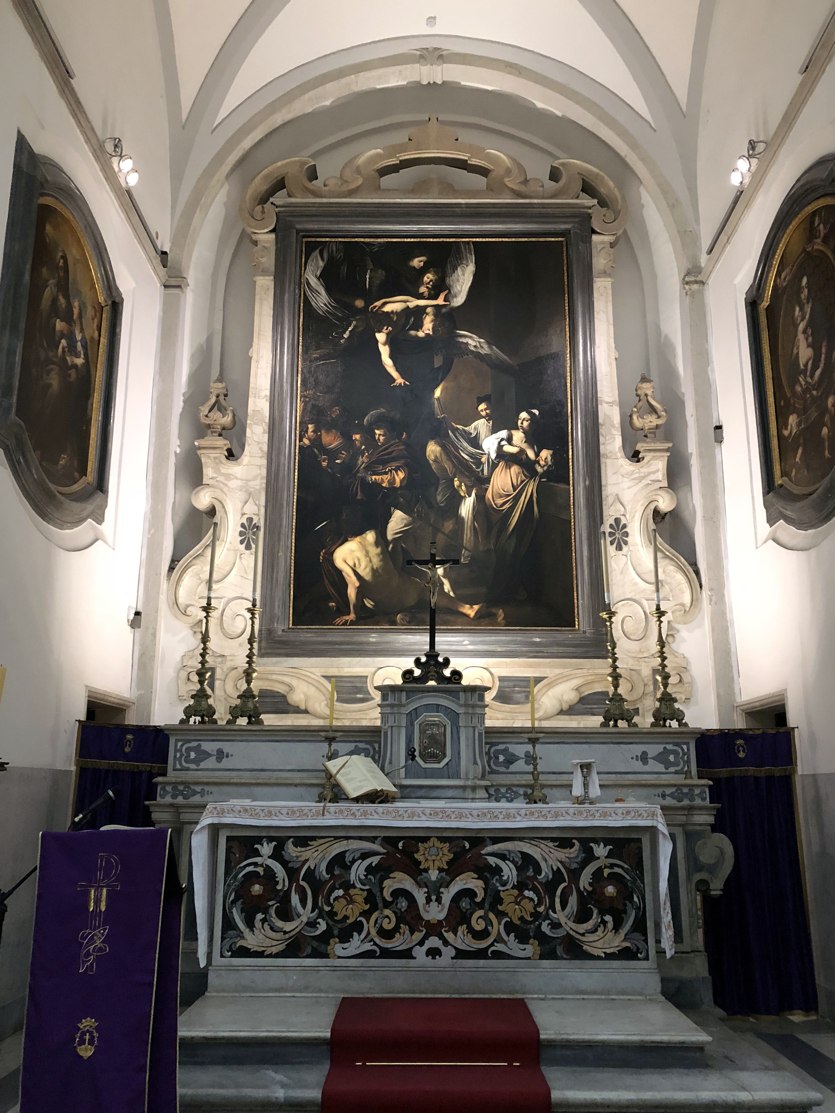 The Seven Works of Mercy by Caravaggio, seen with the altar at the Pio Monte della Misericordia in Naples, Italy.